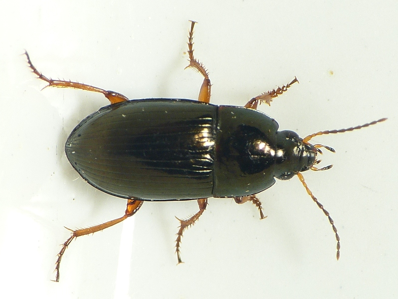 Amara familiaris, location: The Netherlands - Wageningen - Plasserwaard